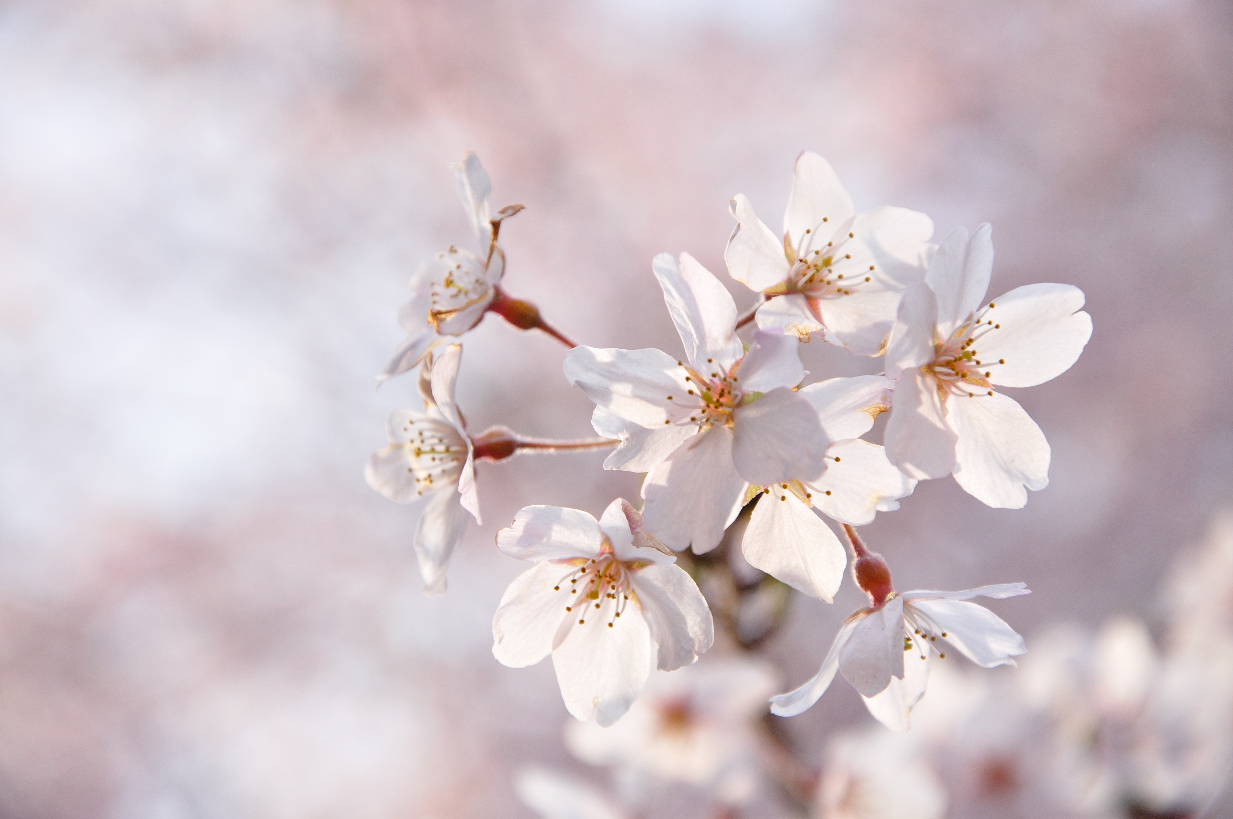 The following is the author's description of the photograph quoted directly from the photograph's Flickr page."sakura: cherry blossom at Rikugien Park in Tokyo. "